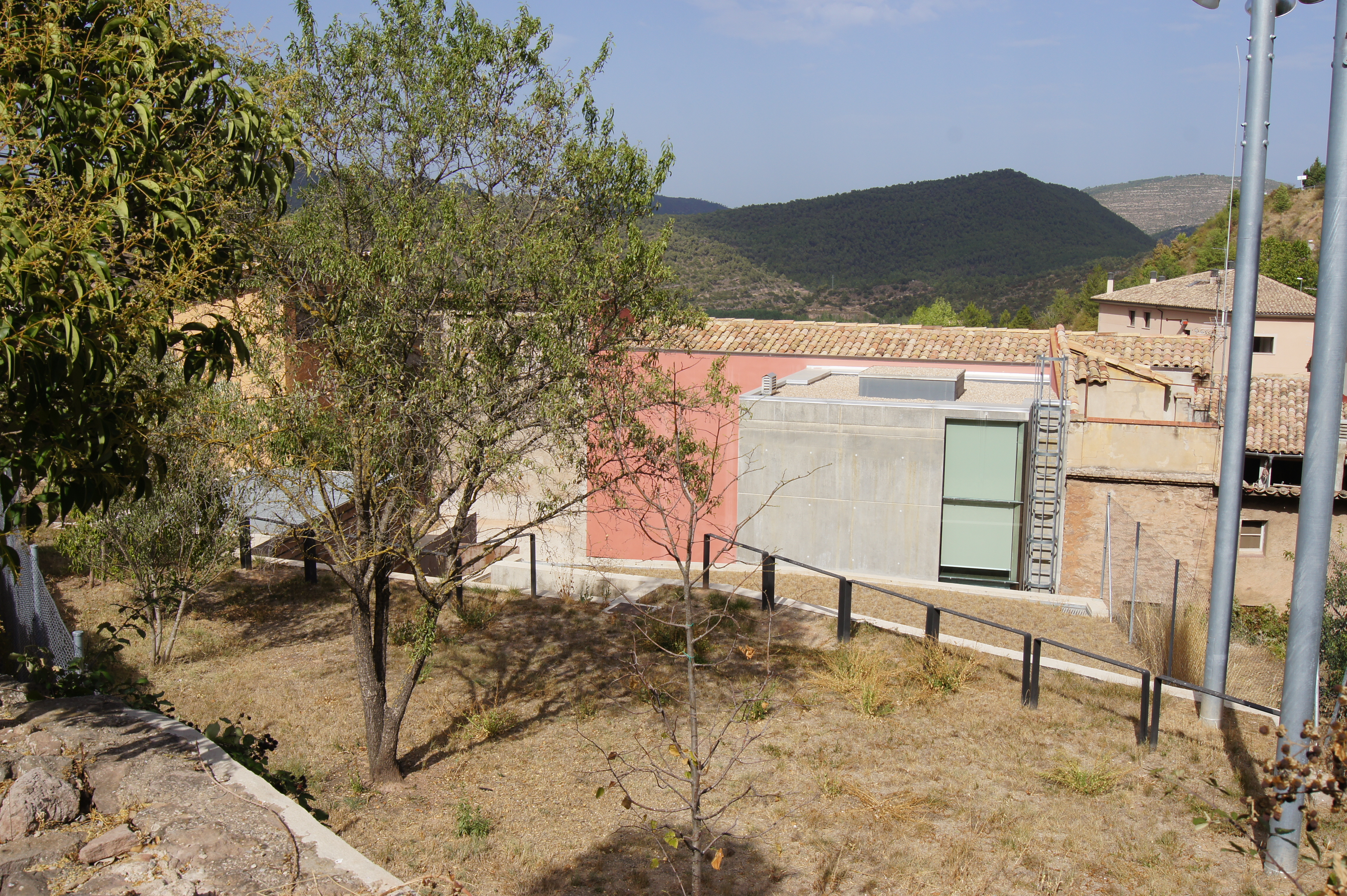 Cardona, Catalonia: Contemporary back façade from the Casa Aguilar, nowadays City Archive and seat of the Fundació Cardona Històrica